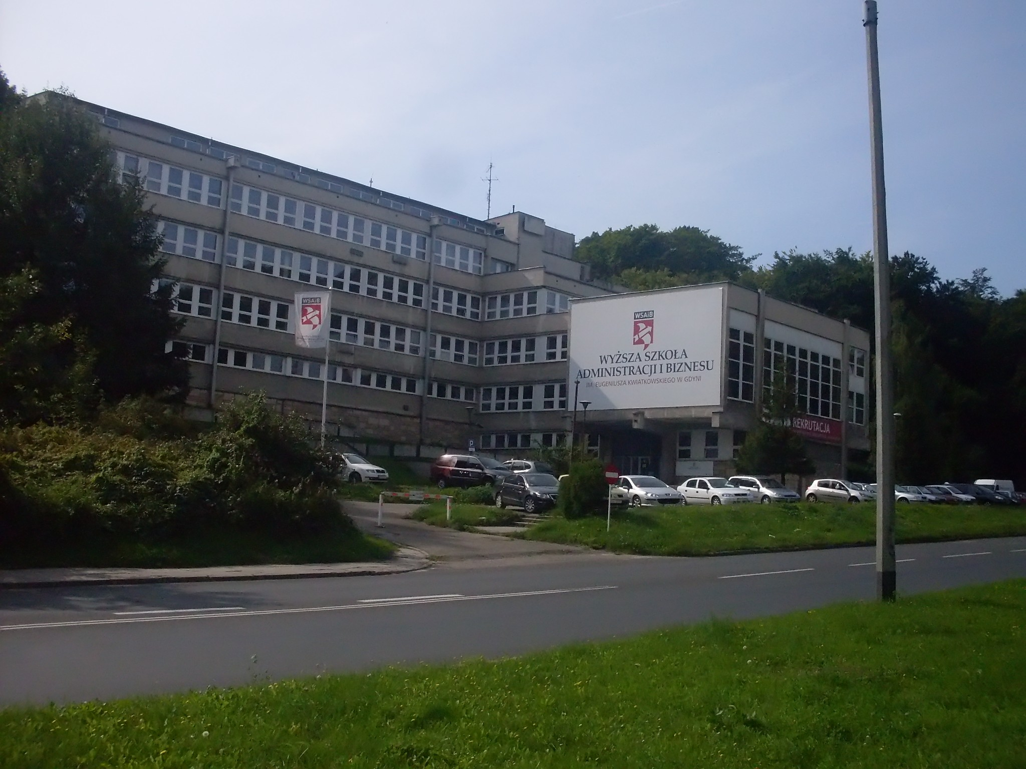 Eugeniusz Kwiatkowski's Academy of Administration and Business in Gdynia.